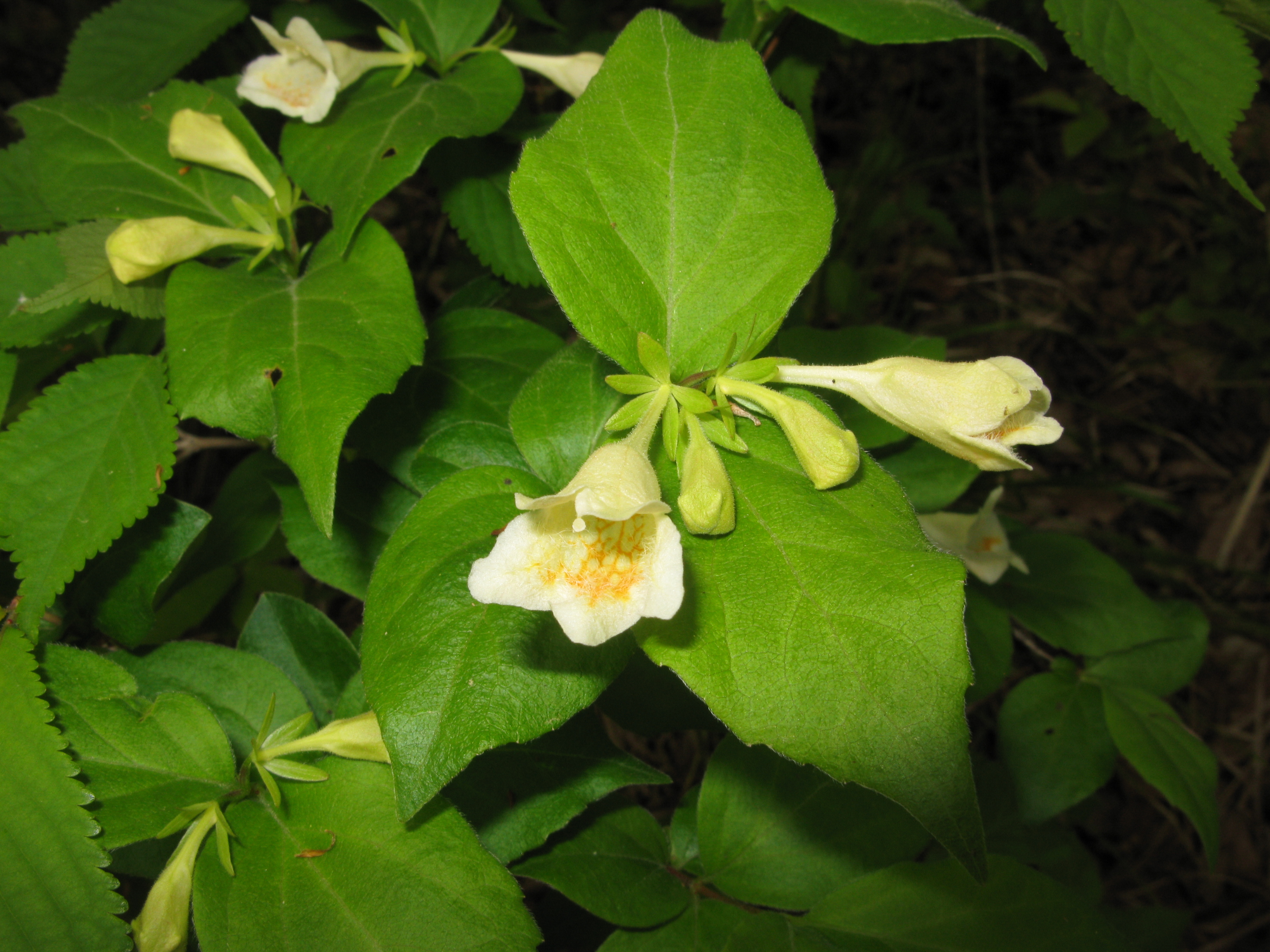 Abelia spathulata, Aizu area, Fukushima pref., Japan